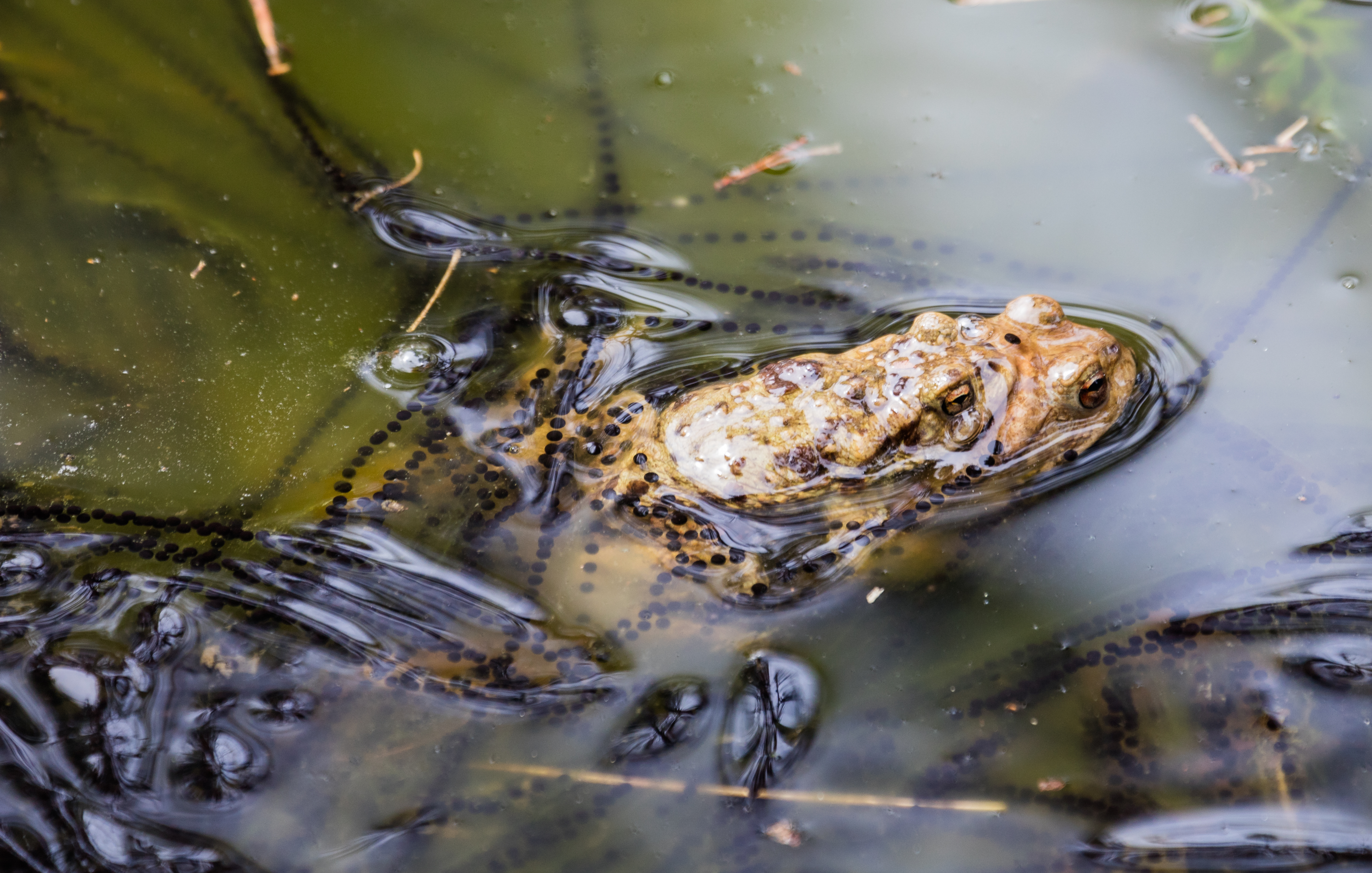 Common toad (Bufo bufo), Hartelholz Forest, Munich, Germany